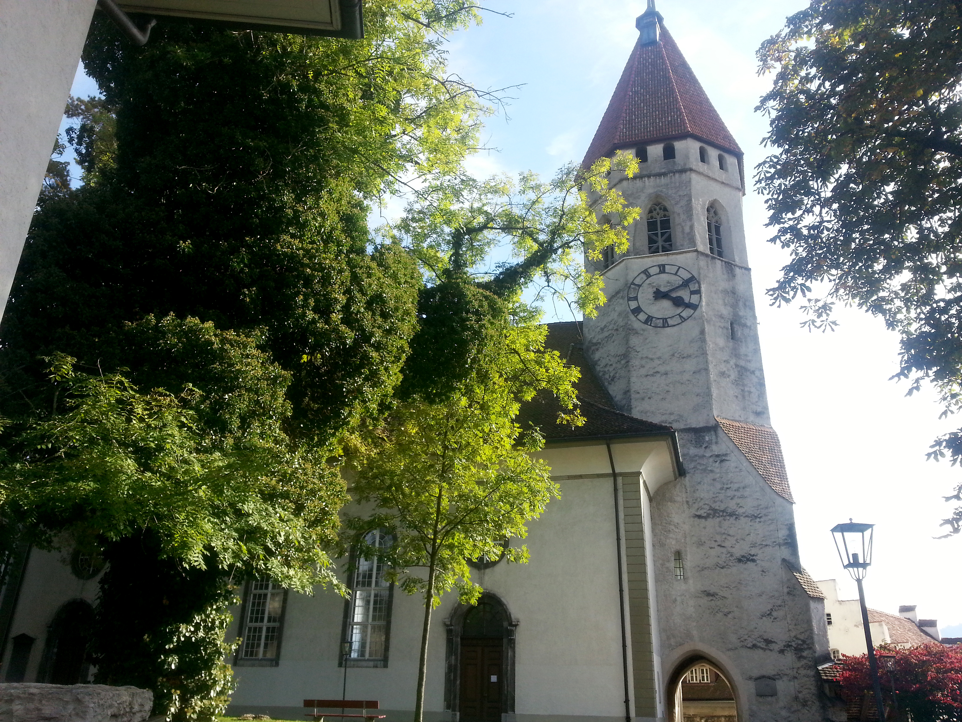 The town church of Thun